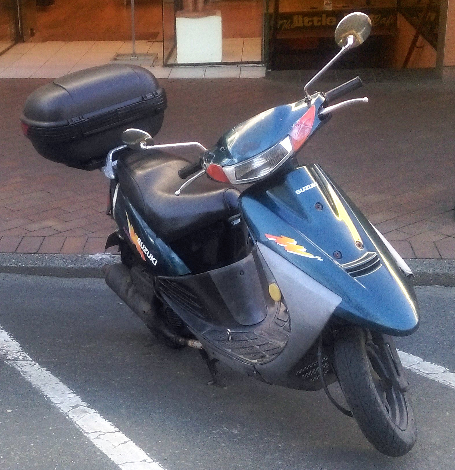 Picture of a Suzuki SJ50QT motor-scooter in New Zealand.